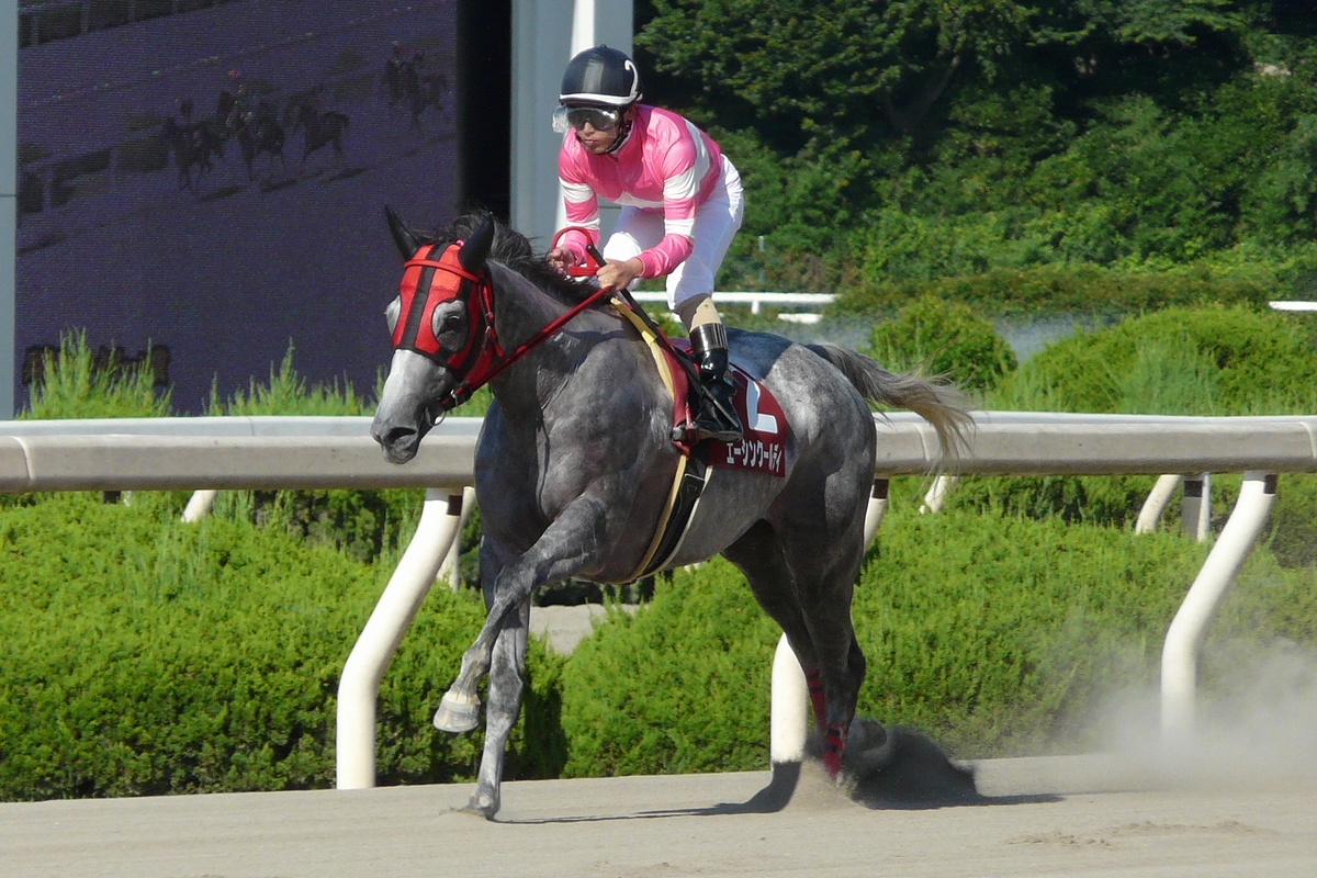 A-shin-cool-D20110804